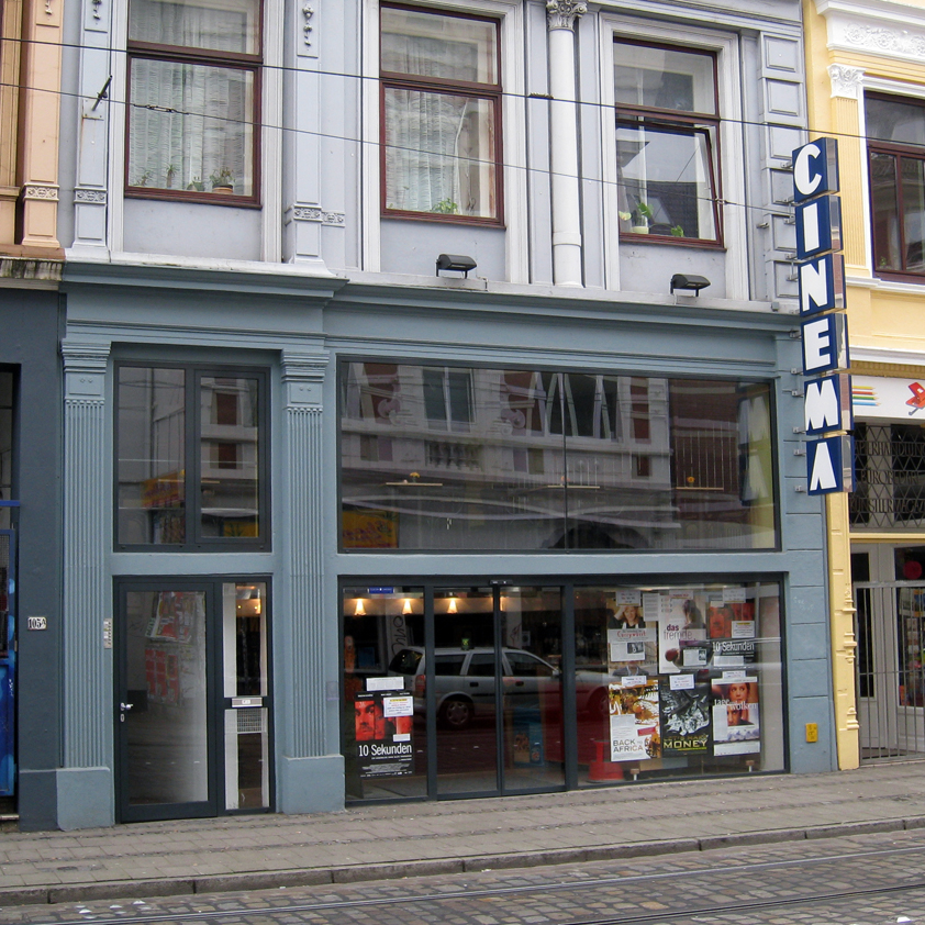 The movie theater Cinema Ostertor at the Ostertorsteinweg in Bremen, Germany.